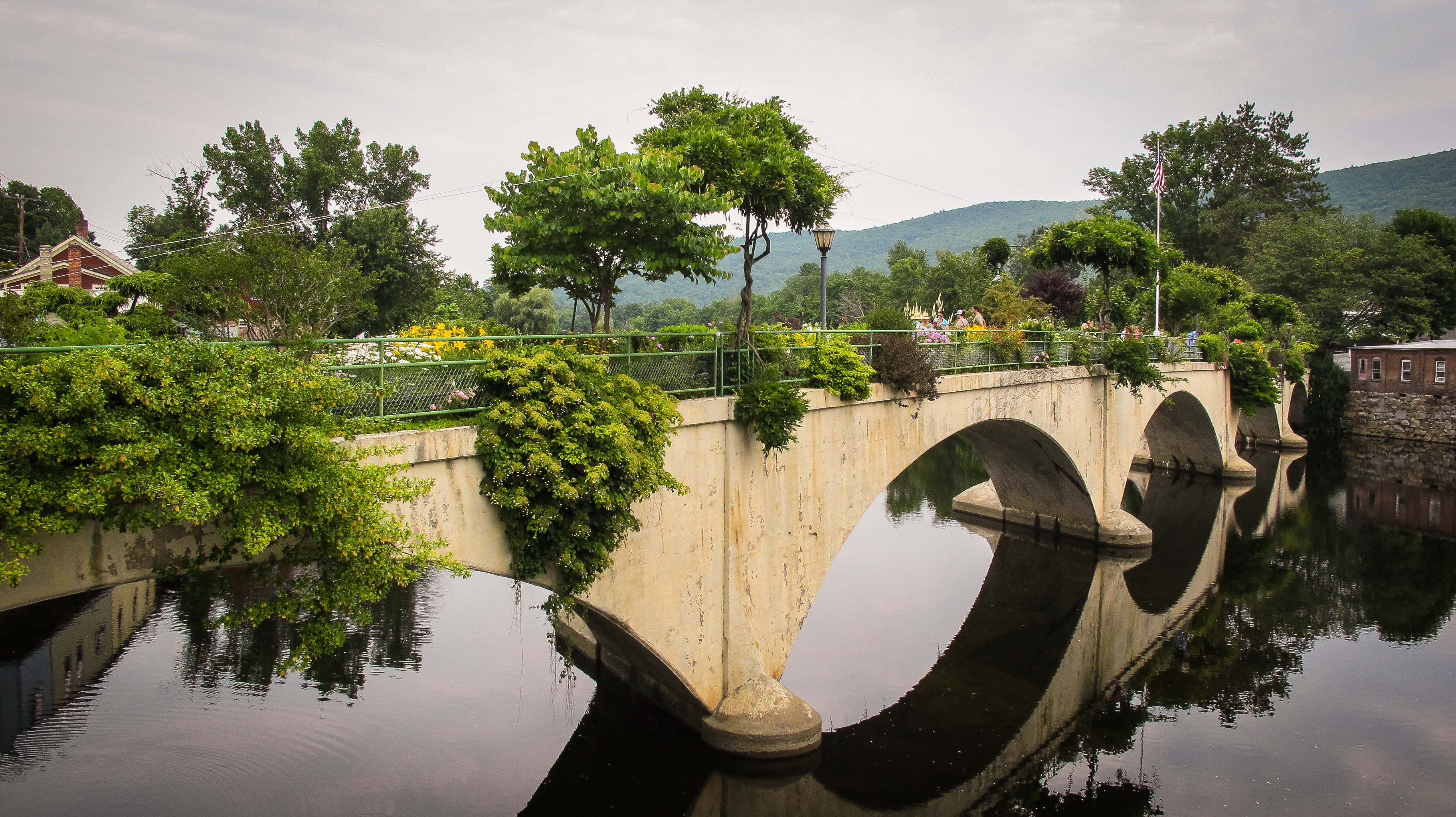 Bridge Flowers, 18 Water Street, Shelburne Falls, MA 01370, USA